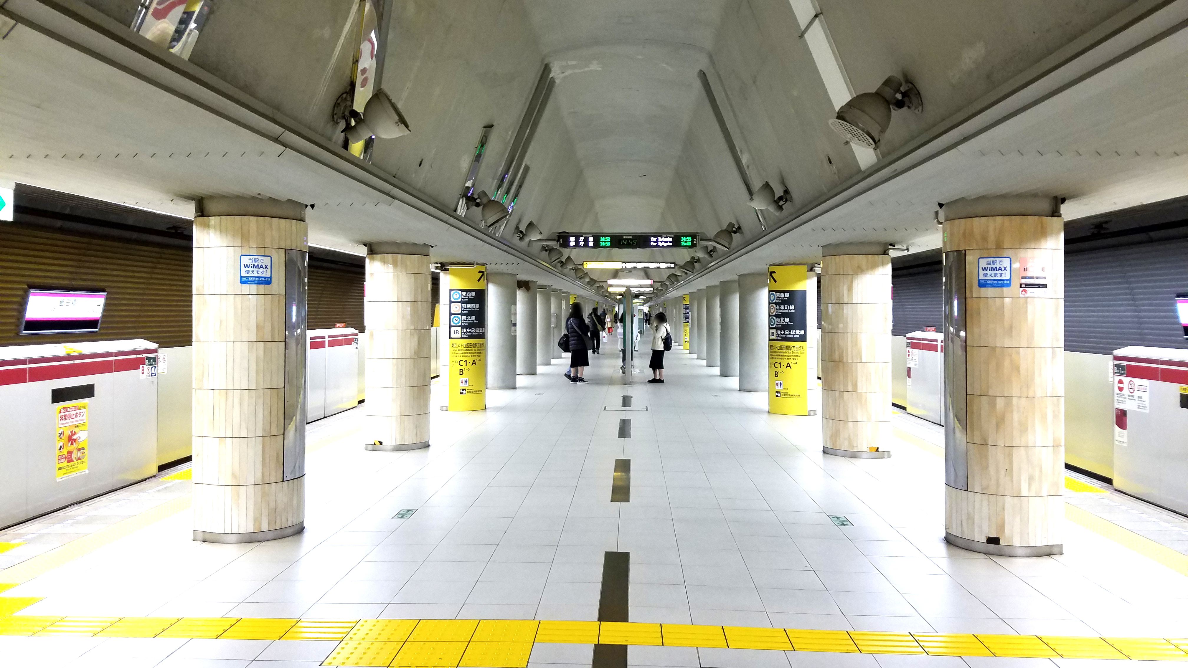 The platform at Iidabashi Station on the Toei Ōedo Line in Bunkyō city, Tokyo, Japan